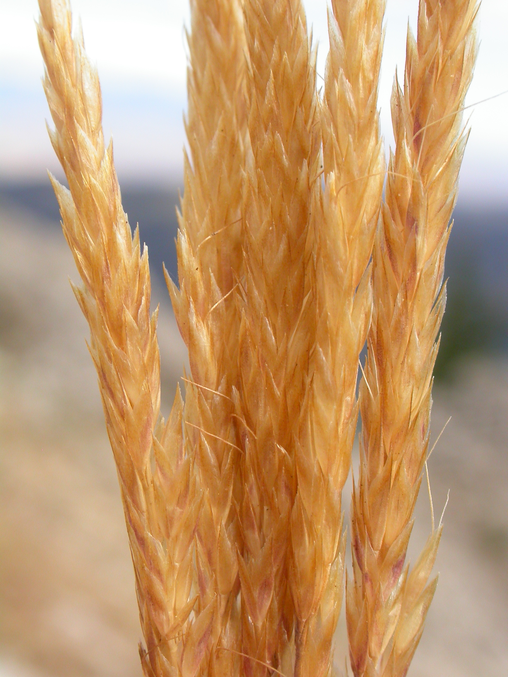 Trisetum spicatum (L.) K.Richt. - spike trisetum: "The awns from the usually two florets per spikelet protrude laterally from the spicate flowering head."